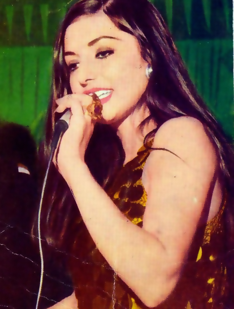 Googoosh singing, before 1979